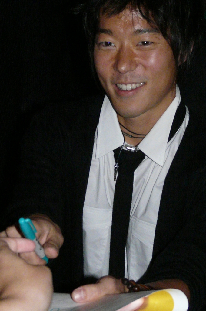 Aaron Yoo at TIFF 2008